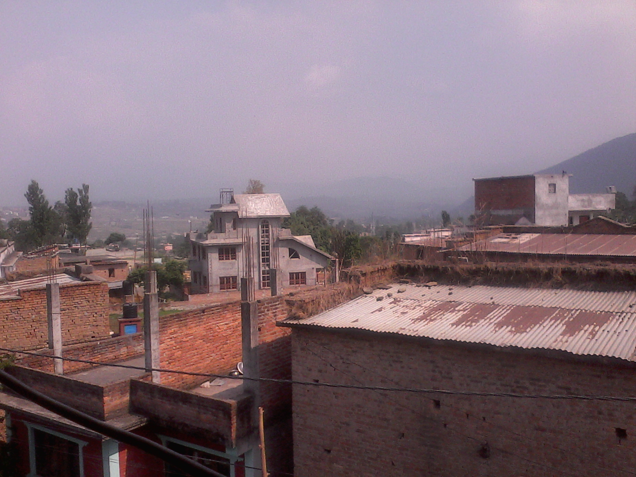 Housing style